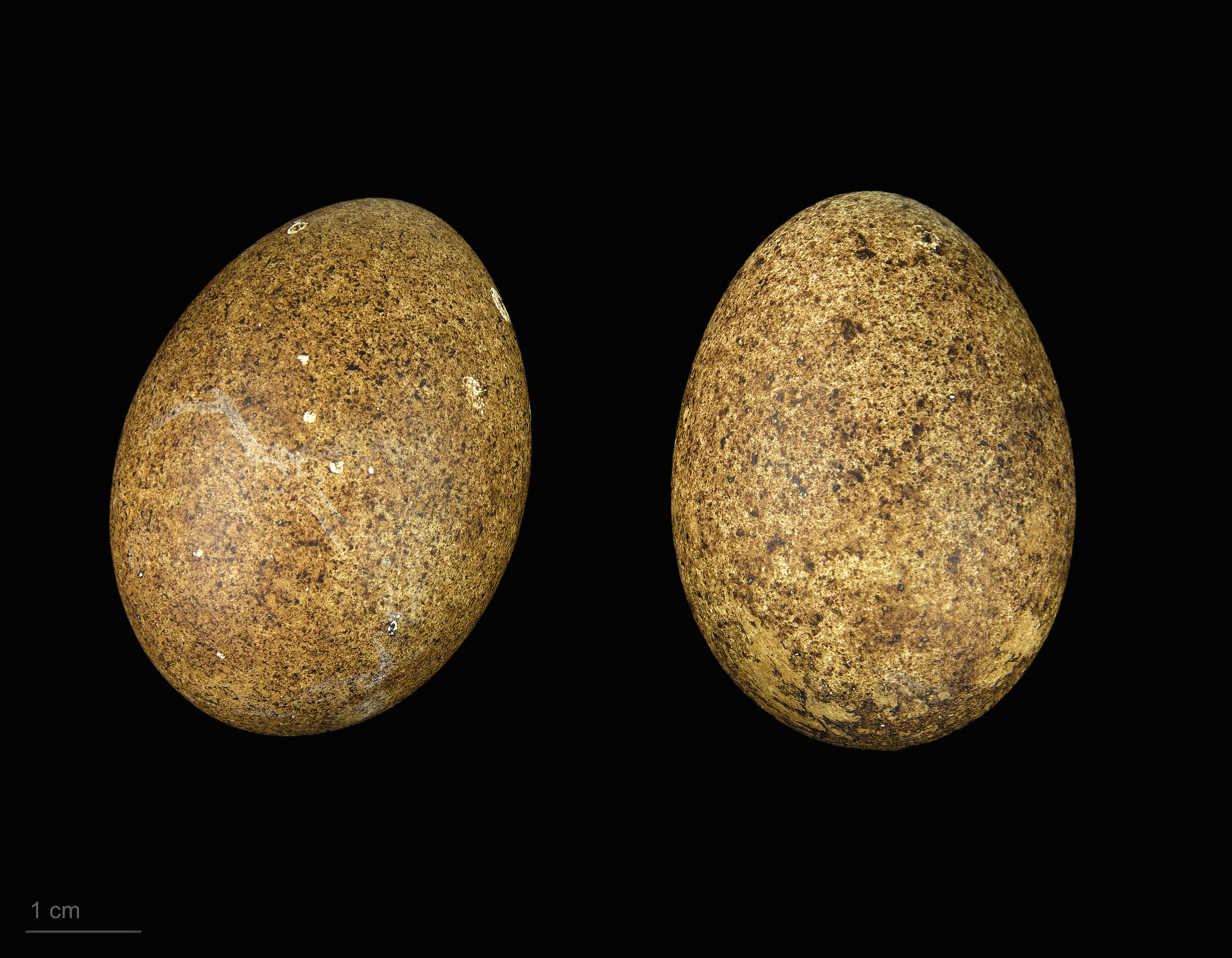 Eggs of smyril Two specimens of the same spawn ; collection of Jacques Perrin de Brichambaut.